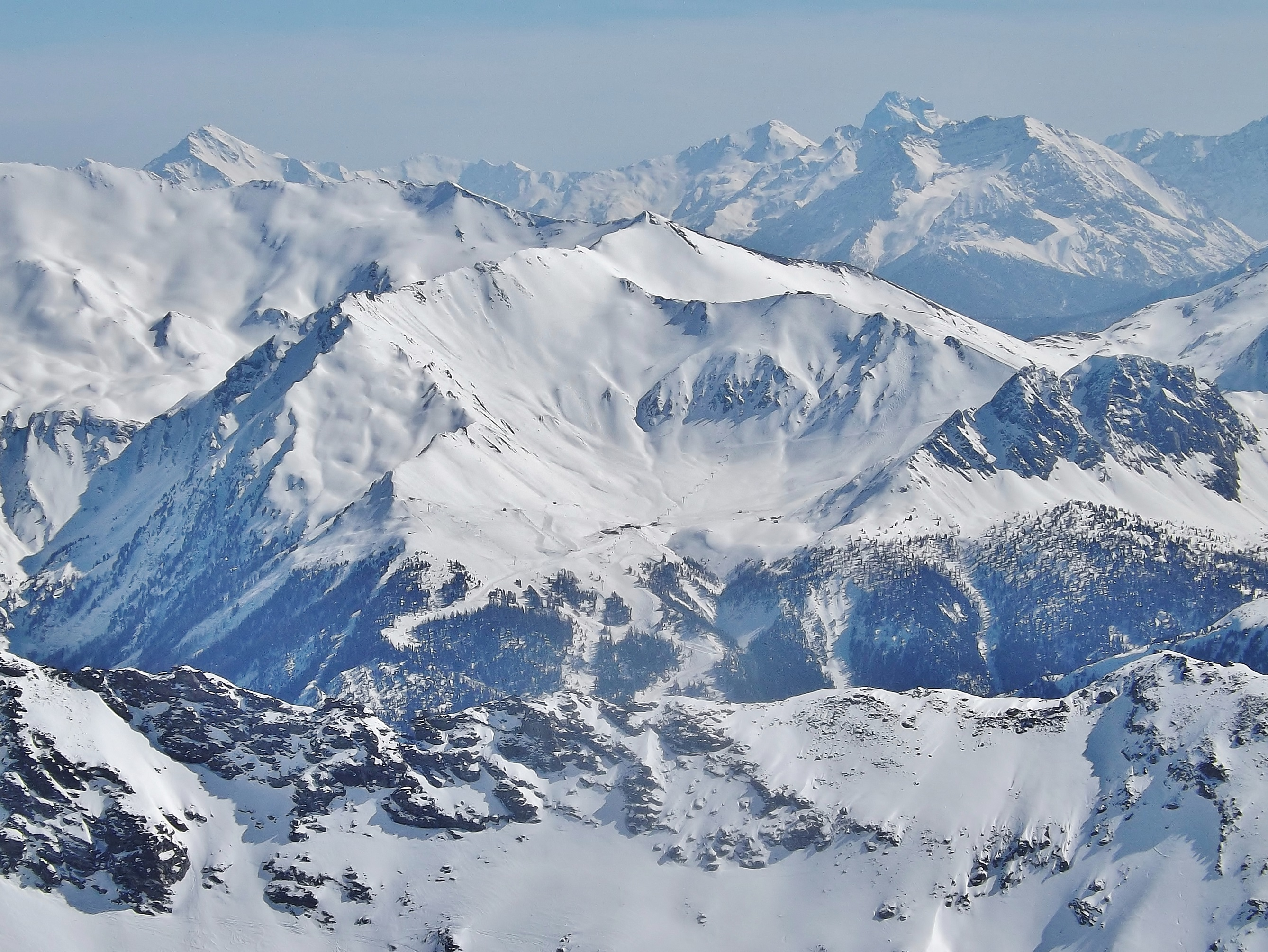 Panoramic sight, from the cime de Caron mount, of Valfréjus ski resort, in Savoie, France.